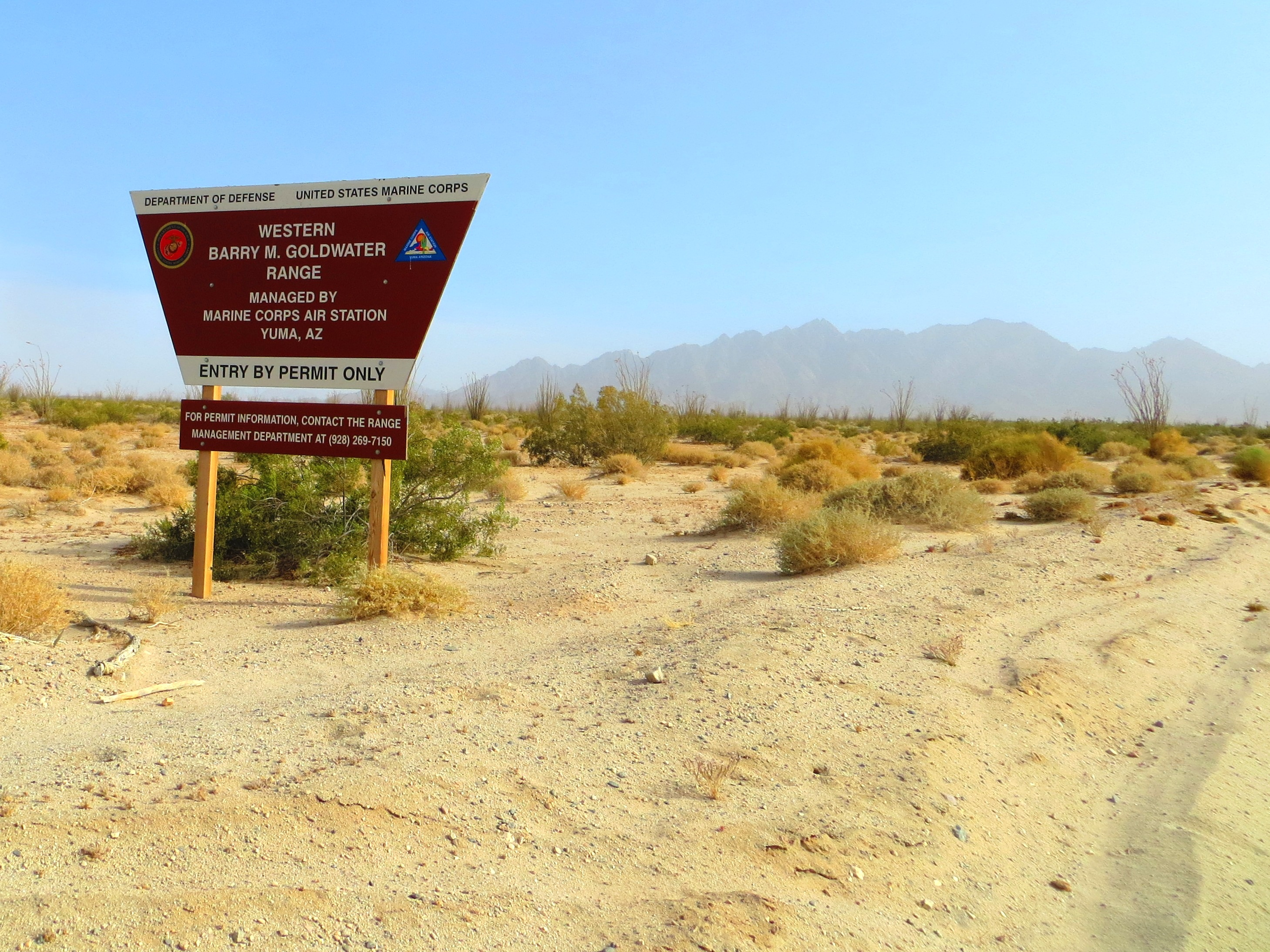 sign along El Camino Del Diablo roadside in Barry M. Goldwater Air Force Range, near Wellton, Arizona.